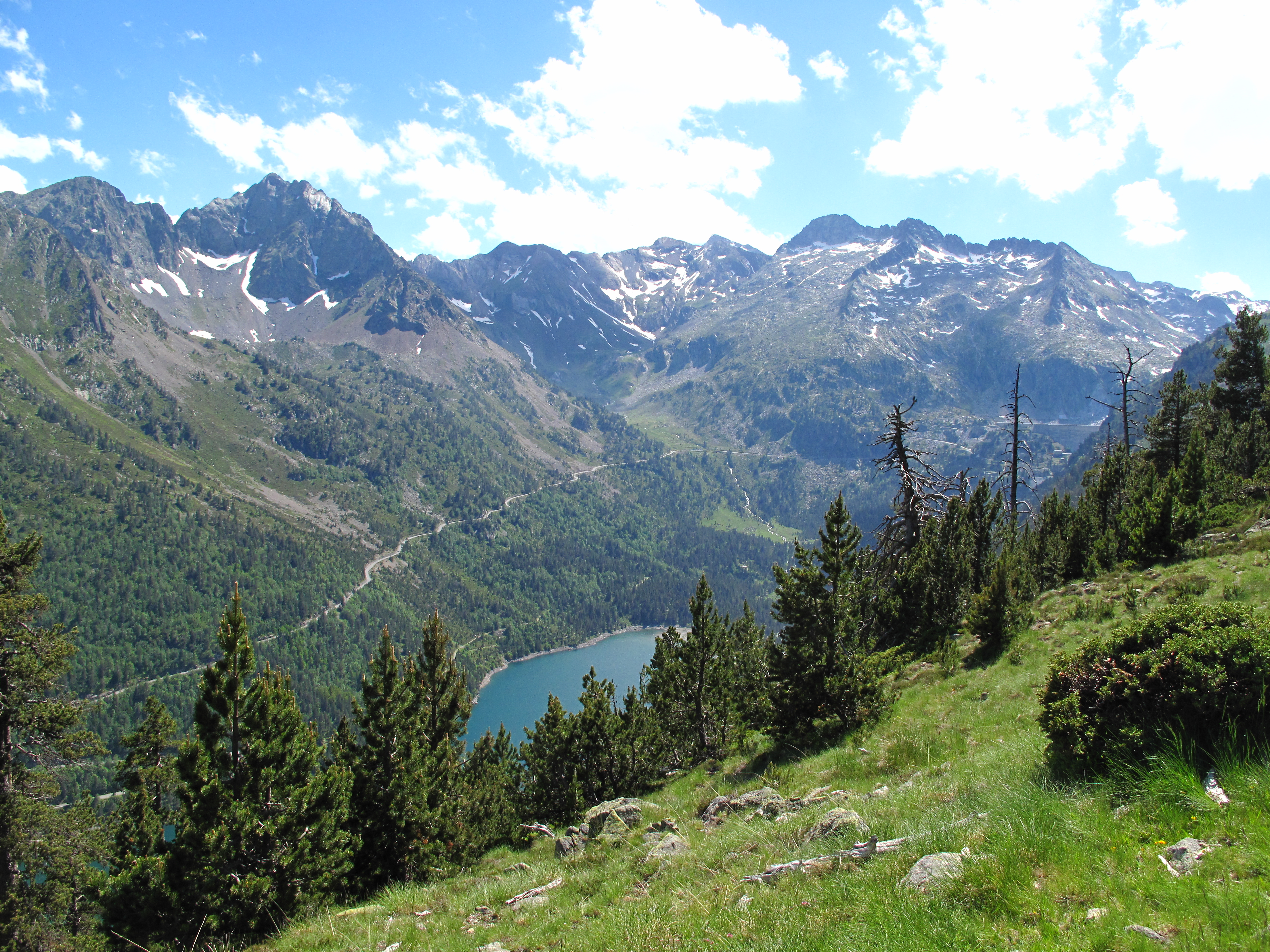 parc national des Pyrénées